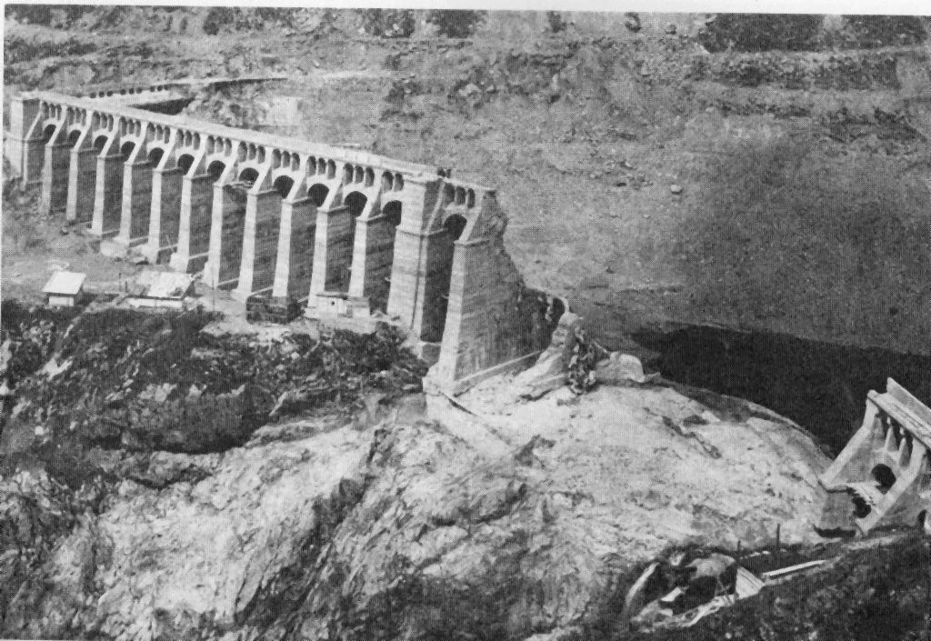 Gleno Dam, Italia